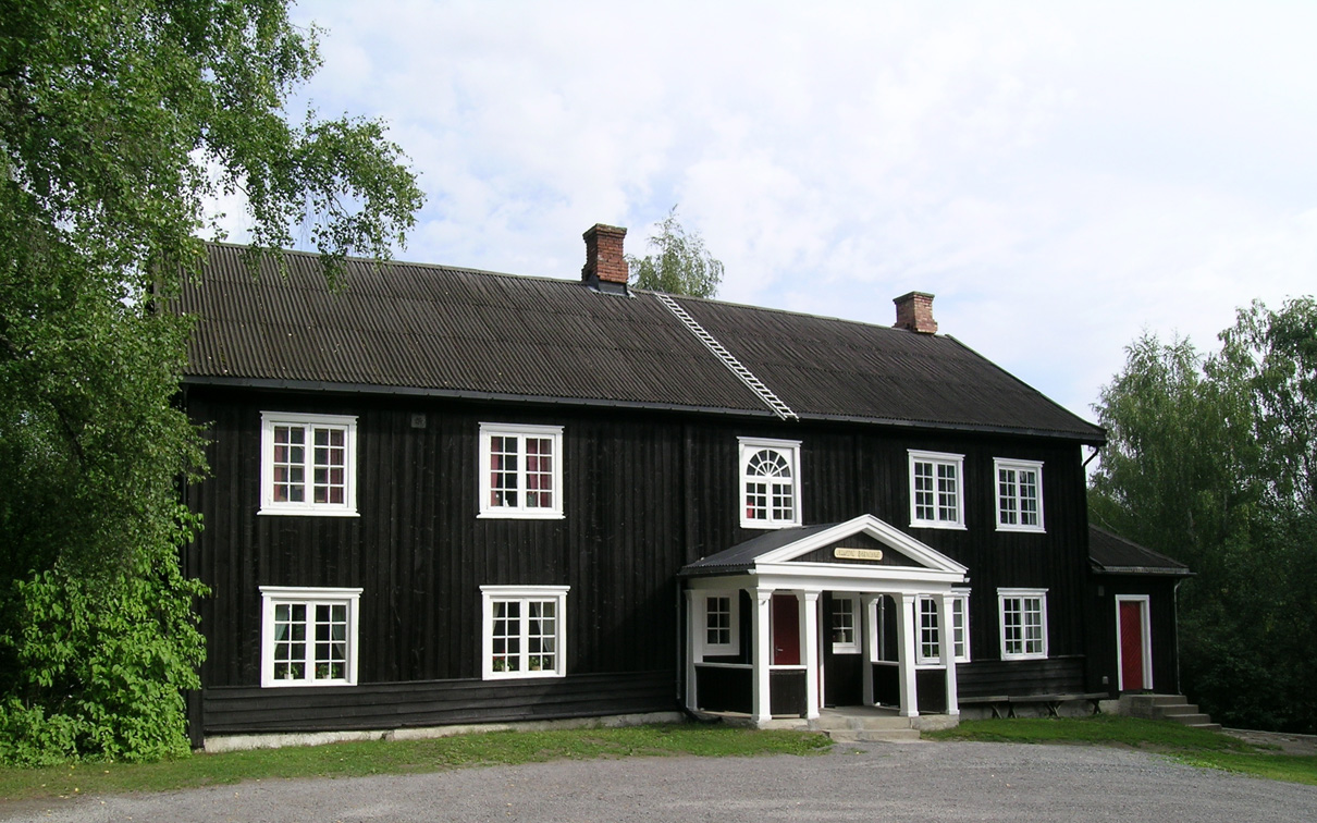 Augedal, Brandbu, Gran, Oppland, Norway.